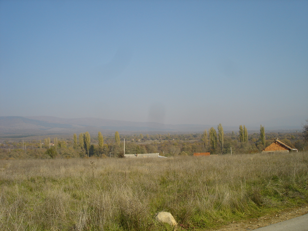 Landscape of Slavište valley, in Kriva Palanka region, northearstern Macedonia